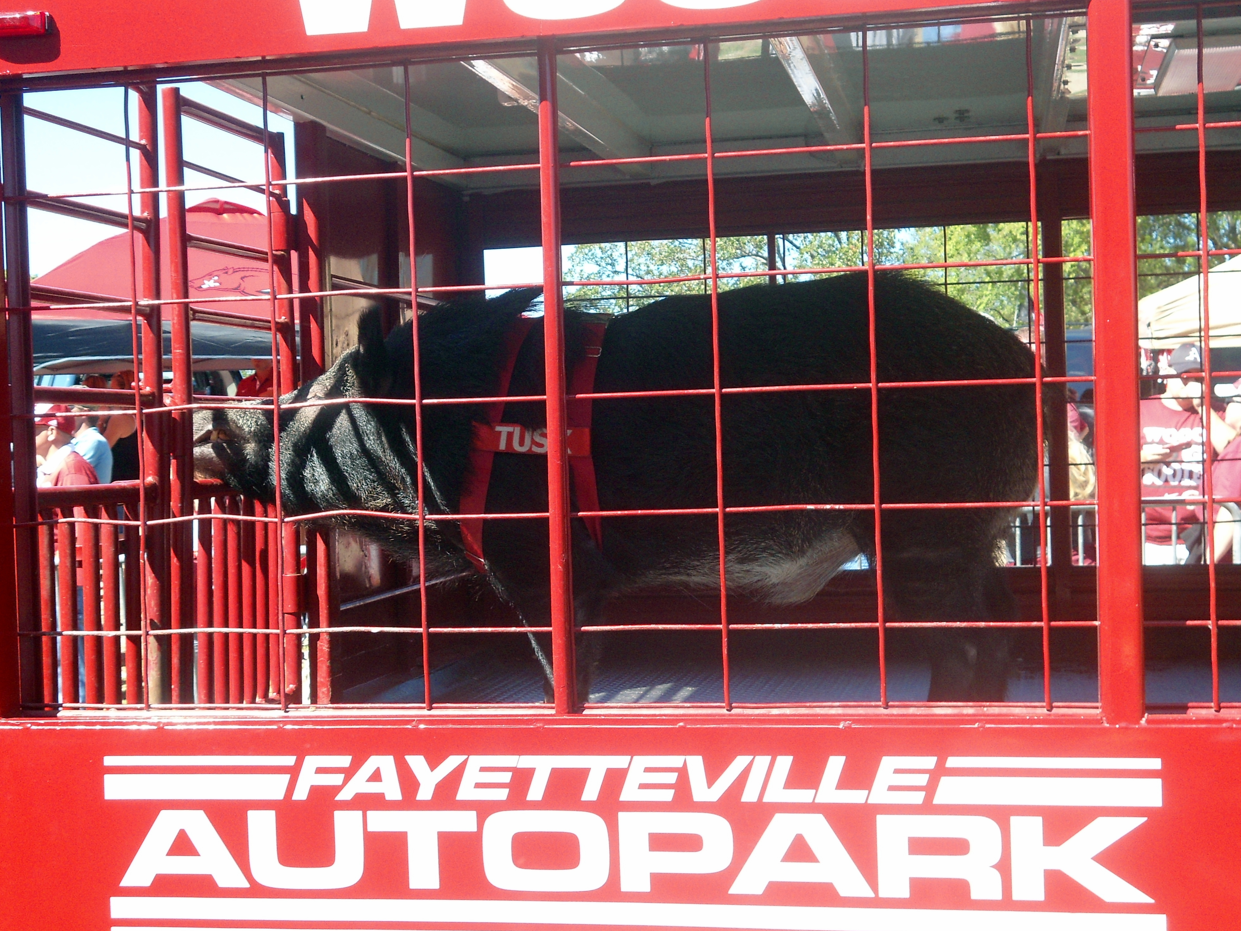 Tusk IV in his pen prior to the ULM vs Arkansas game, War Memorial Stadium, Little Rock, Arkansas.